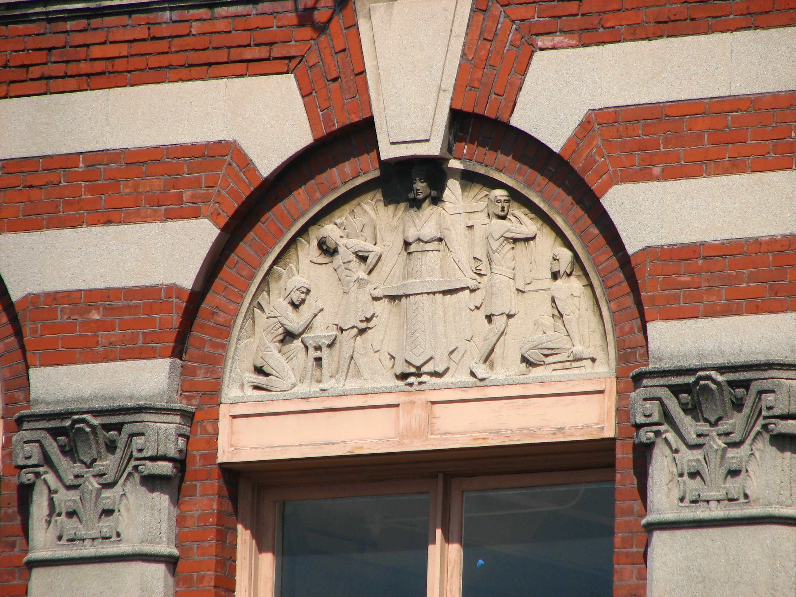 The historic Yale Union Laundry Building (built 1908), located at 800 Southeast 10th Avenue in Portland, Oregon, United States, is listed on the US National Register of Historic Places.